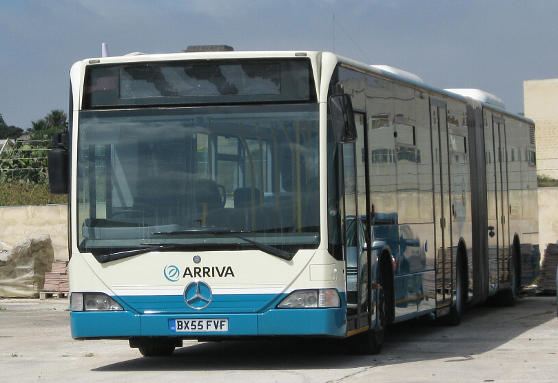 Citaro Artic Arriva malta